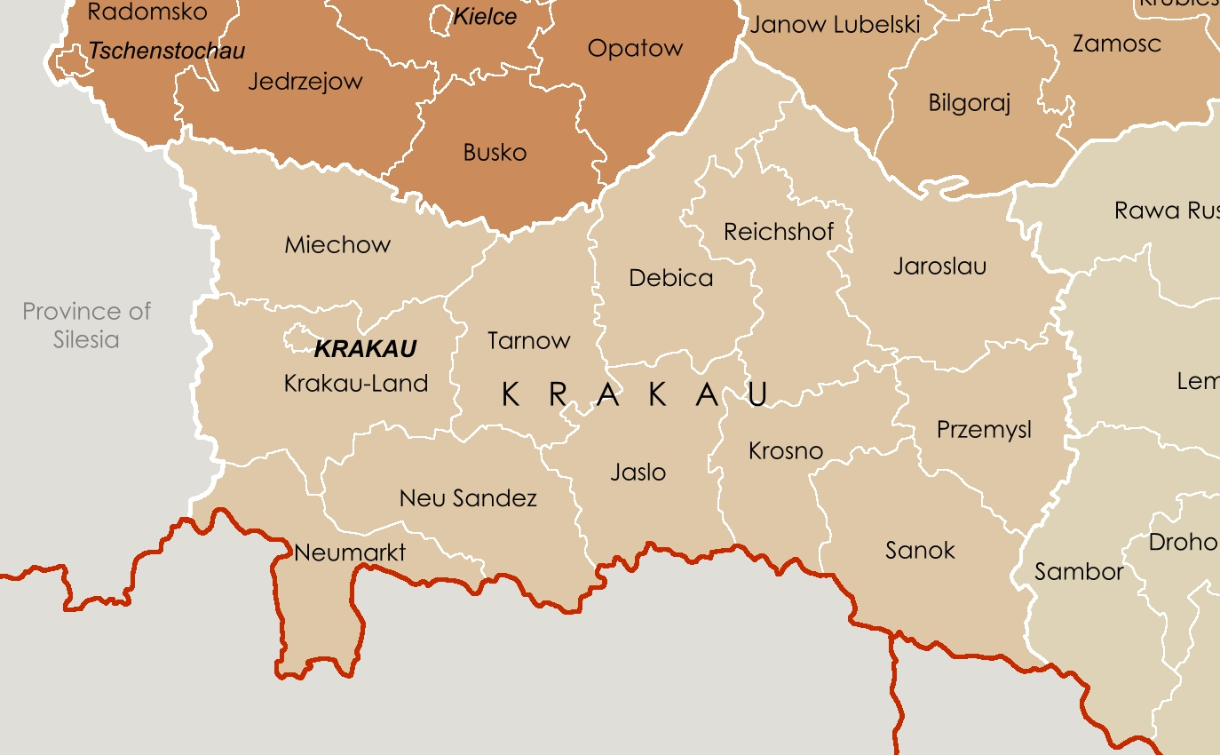 Map of Krakau District